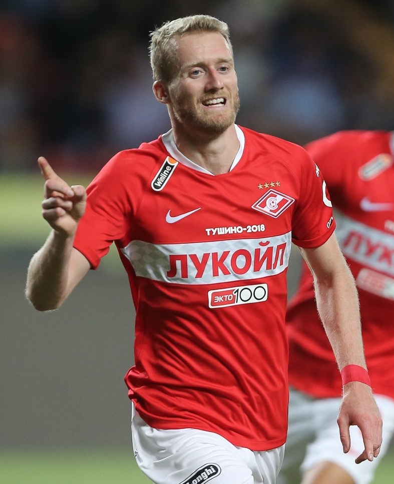 André Schürrle celebrating scoring a goal for FC Spartak Moscow in a game against FC Akhmat Grozny.